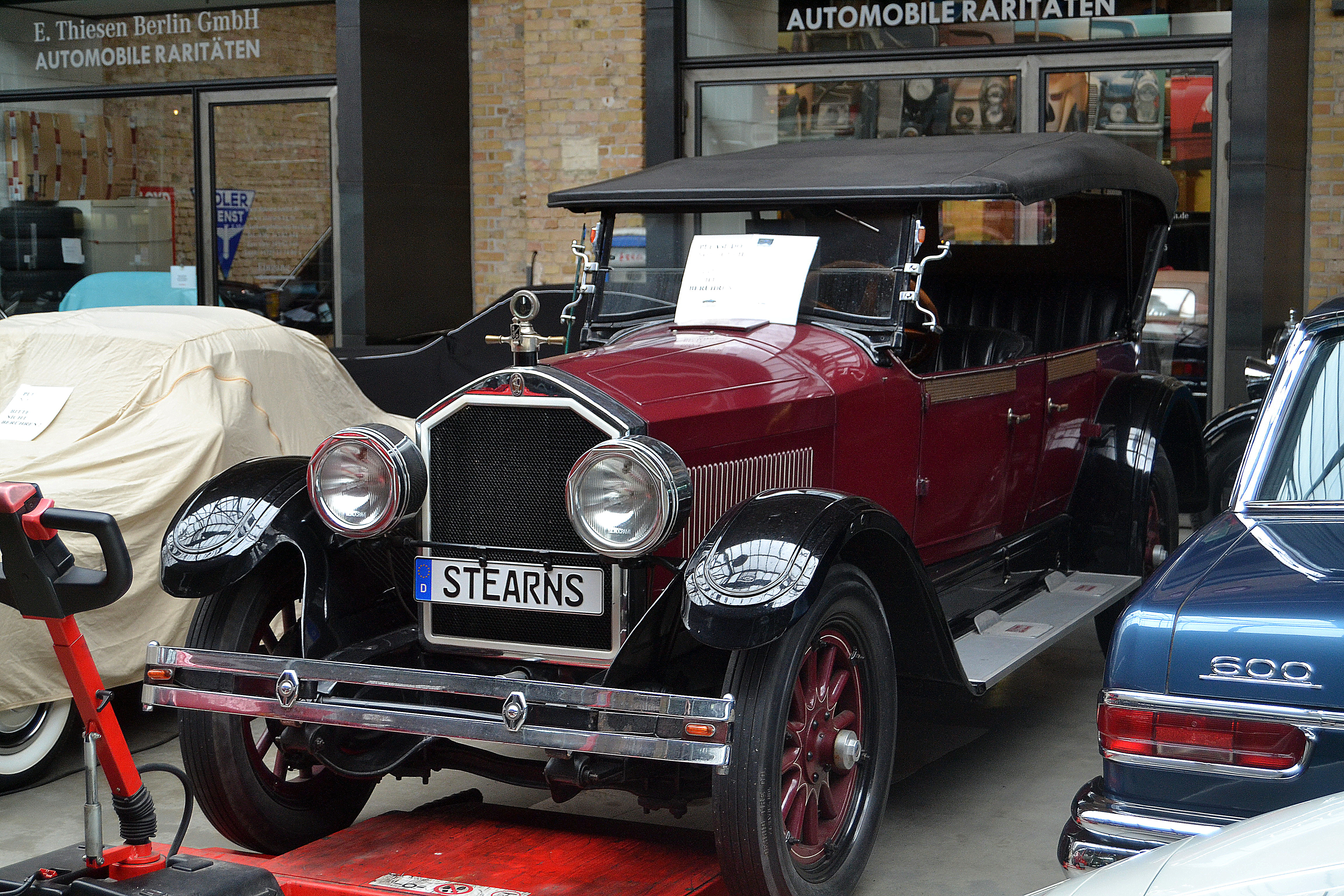 Stearns Model S (1925)